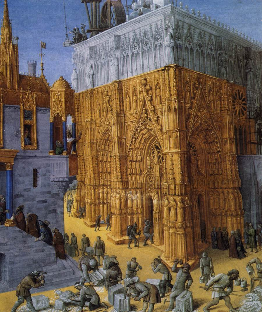 Solomon construction the Temple of Jerusalem. 15th-century illustration of Book VIII of the 1st-century Greek text Antiquities of the Jews by Flavius Josephus. Commissioned for John, Duke of Berry. Bibliothèque nationale de France. Département des Manuscrits. Français 247, folio 163 recto. (Gallica: (ark:/12148/btv1b8452200r)